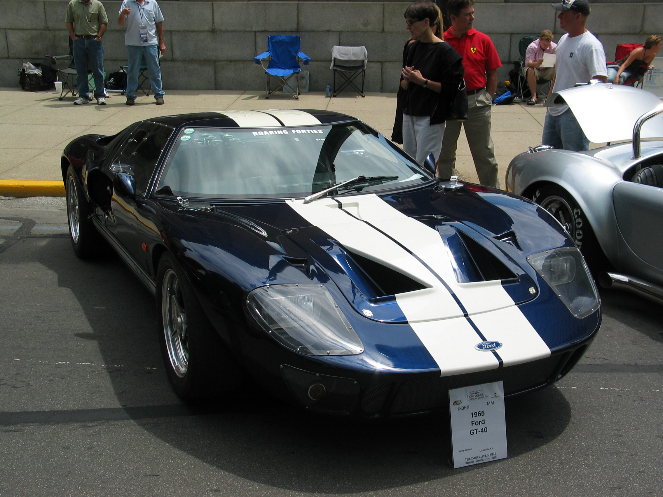 A 1965 Ford GT40 replica on display at the 2005 United States Grand Prix.